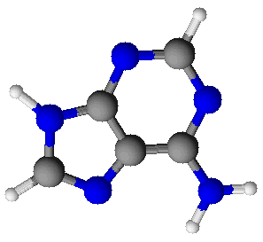 Adenine